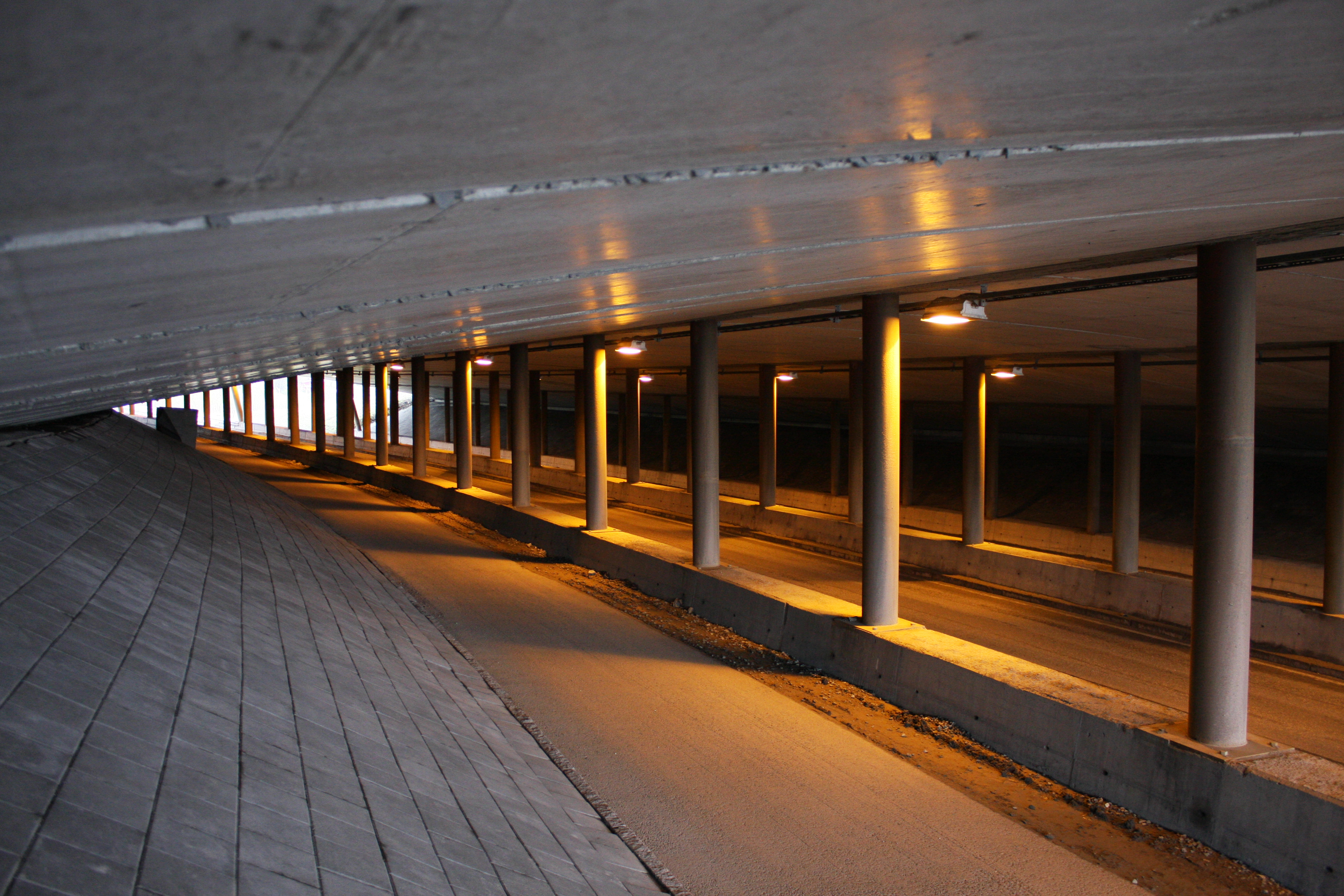 Inside the tunnel.